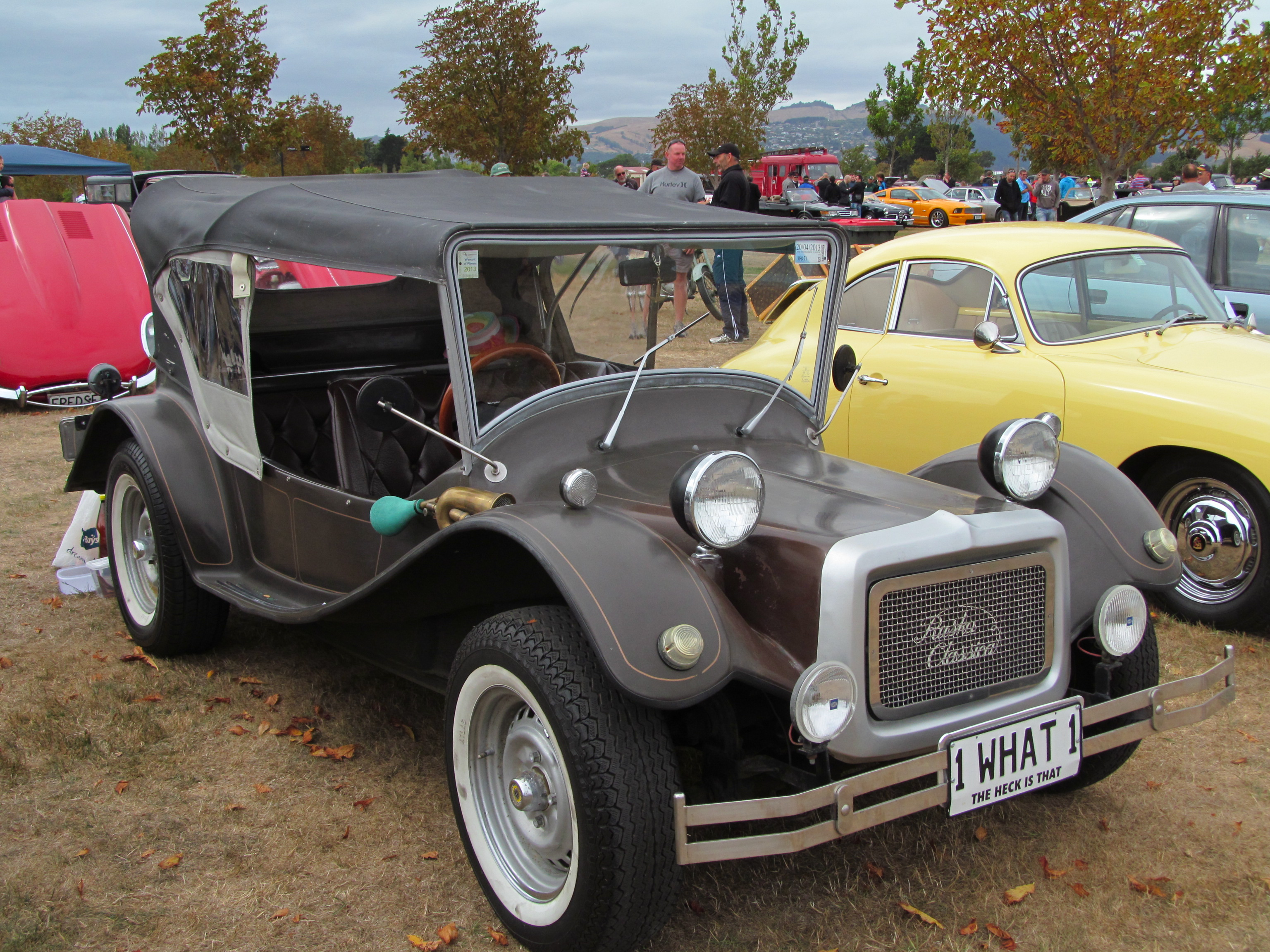 1 WHAT 1 This is actually a very rare vehicle, as it is a genuine Ruska Classica, built on a Volkswagen Beetle (Type 1) chassis by Dutch buggy coachbuilder Ruska. It certainly is a ridiculous looking thing...